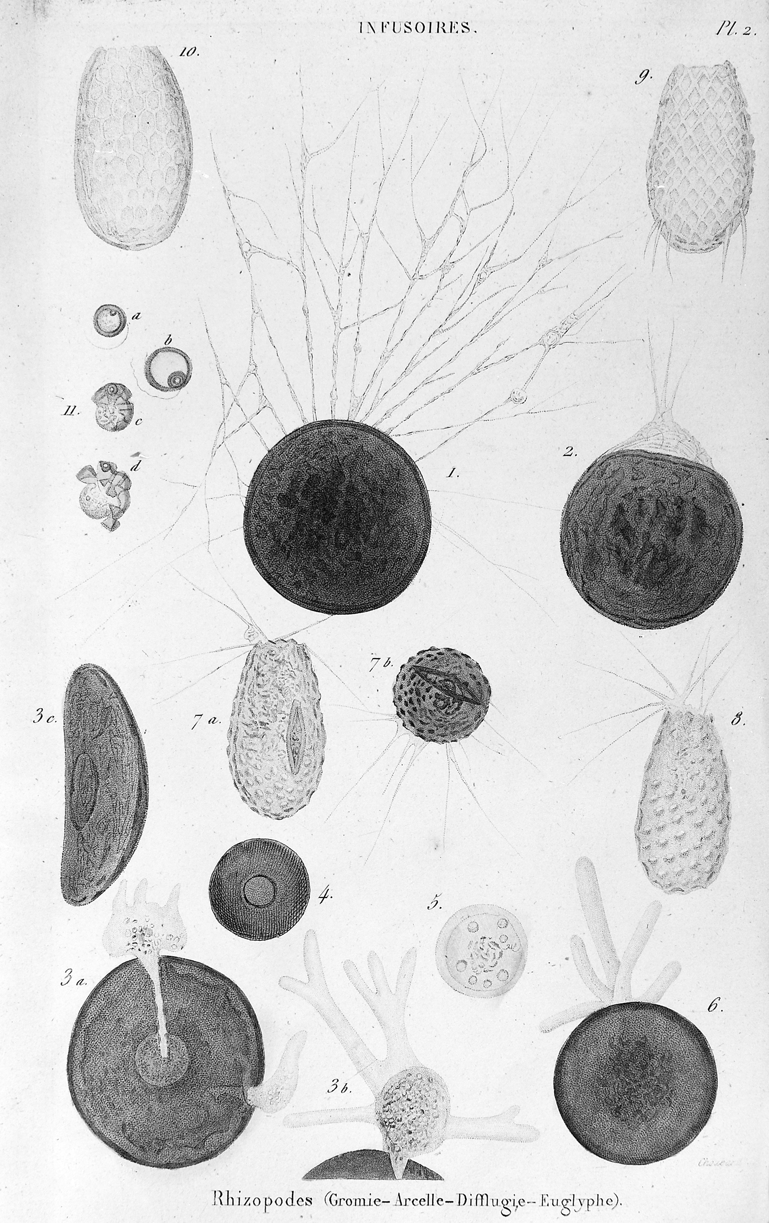 Rhizopodes. 1 & 2. Gromia fluviatilis (x 180), 3. Arcella vulgaris (x 200) 7. Euglypha tuberculosa (x 400) 11. Trachelomonas volvocia (x 300) Wellcome Images Keywords: Protozoology